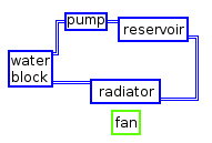 Schematic of a regular liquid cooling system for PC's. The schematic was mainly based on the text at (section "Liquid Cooling System Reservoirs and Tubing"). Also Note that the fan simply blows cold air unto the radiator and isn't connected with a water tube. Also note that: several water blocks can be used as well, the water blocks then connect to each other -read the howstuffworks section mentioned- instead of a radiator specifically made for use in PC liquid cooling systems, car heater cores too can be used -read the howstuffworks section mentioned- it is also possible to make a similar PC liquid cooling system eliminates either a pump or the fan or both (passive system).